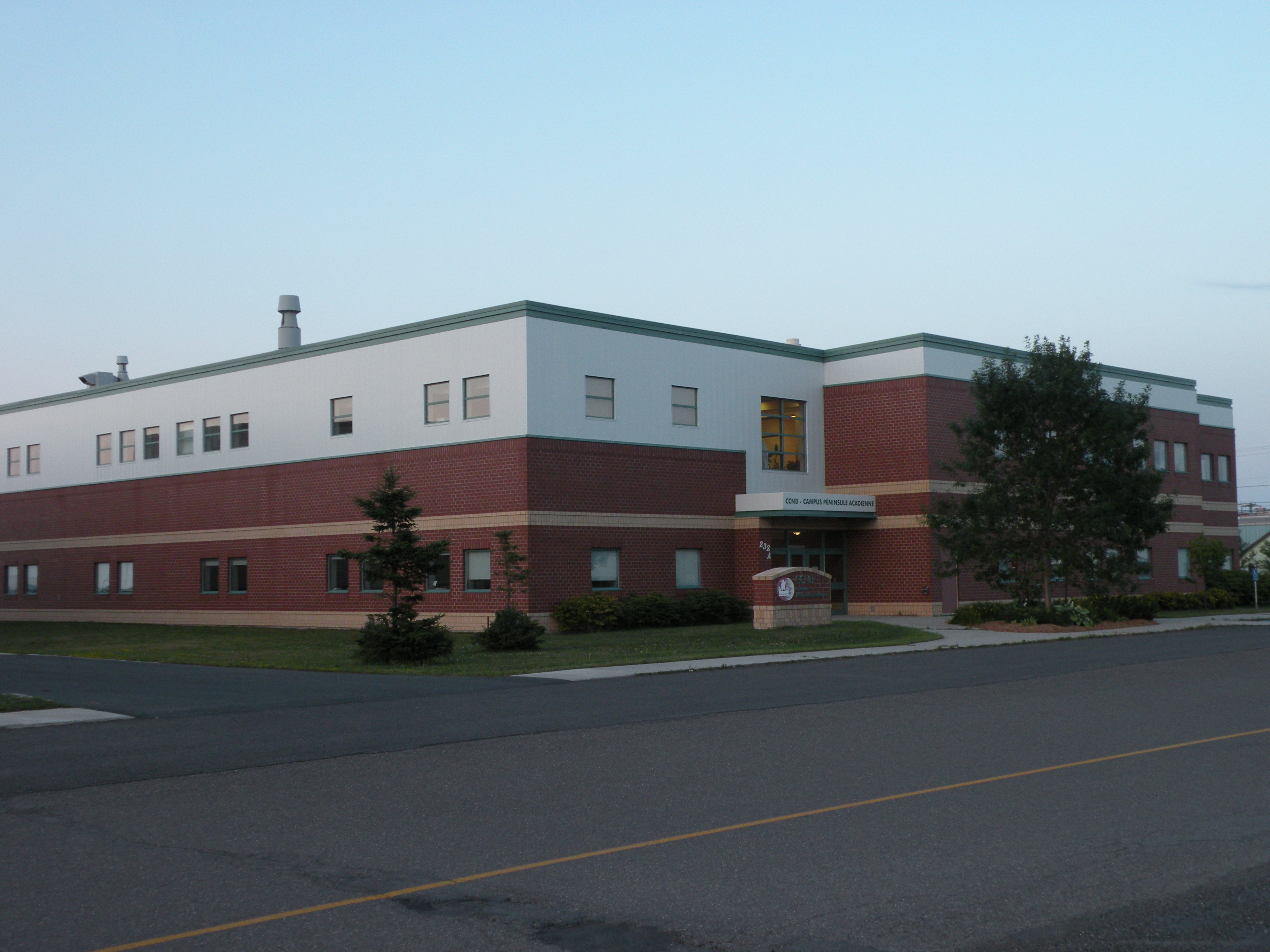 CCNB-Péninsule acadienne in Shippagan, New Brunswick, Canada